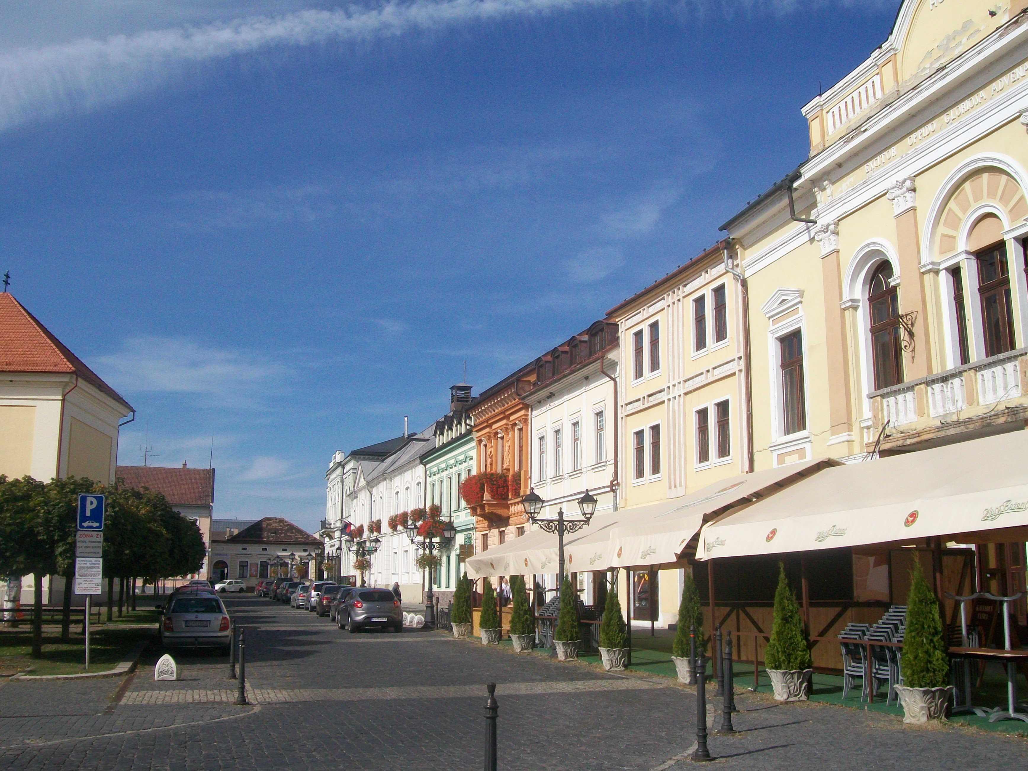 Historic buildings on the Main Square in Rimavská Sobota